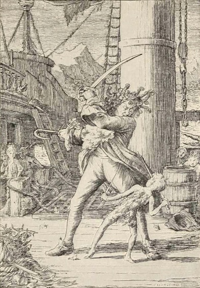 pg 213 of Peter and Wendy